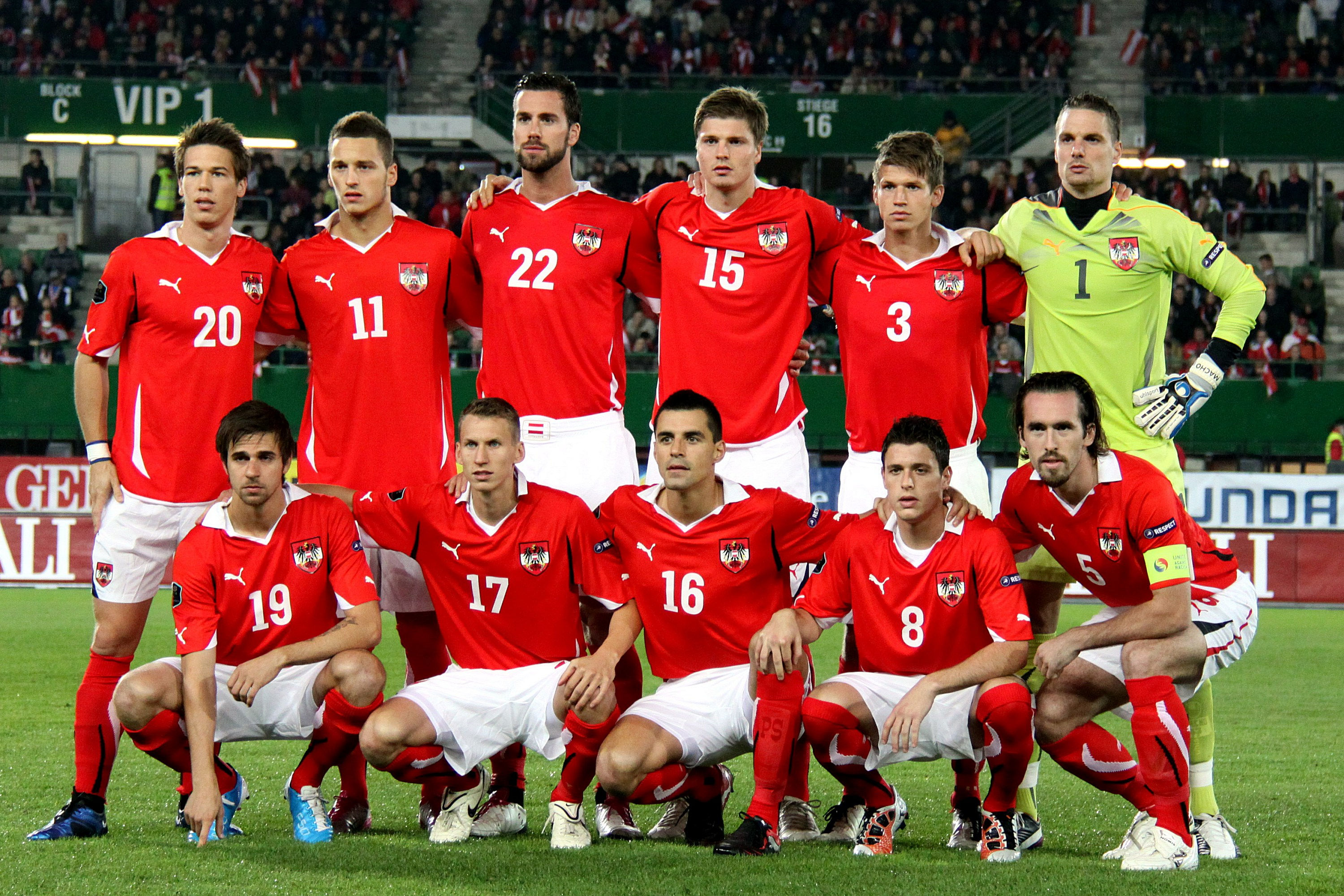 Austria national football team against Azerbaijan (3:0)